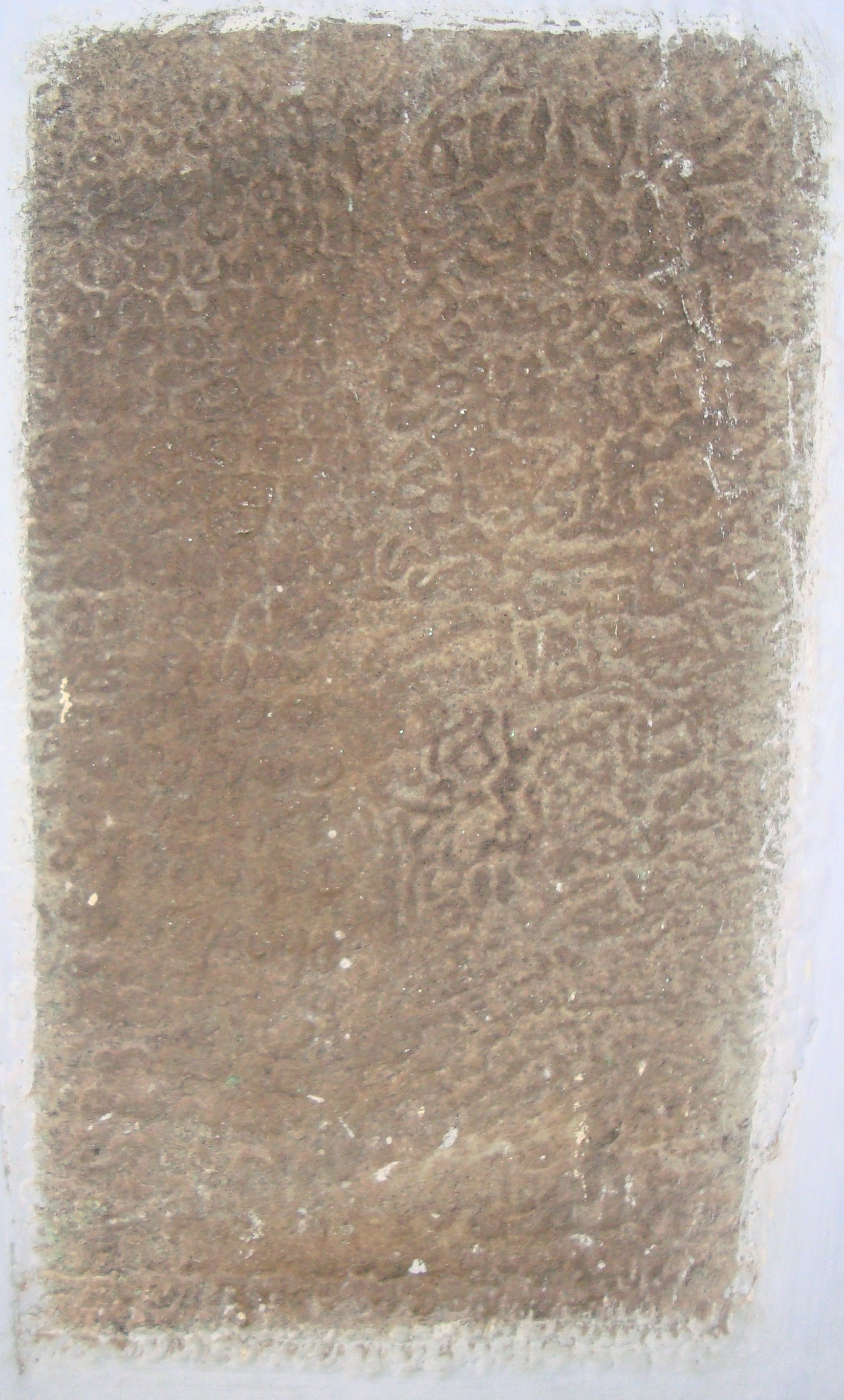 Muccunti Mosque Inscription (Calicut, India). The inscription is undated, but can be positioned on paleographic grounds to the 13th century CE. The content is divided on functional grounds between old Malayalam and Arabic. The concluding portion is in Arabic, while the functional portion recording the specific details of the donation is in old Malayalam. The script of the old Malayalam portion is Vateluttu, a type of medieval script closely related to modern Malayalam and Tamil. The letters are not carved into the stone surface – like the usual Kodungallur Chera style – but are raised on the stone in imitation of the standard practice in Islamic inscriptions